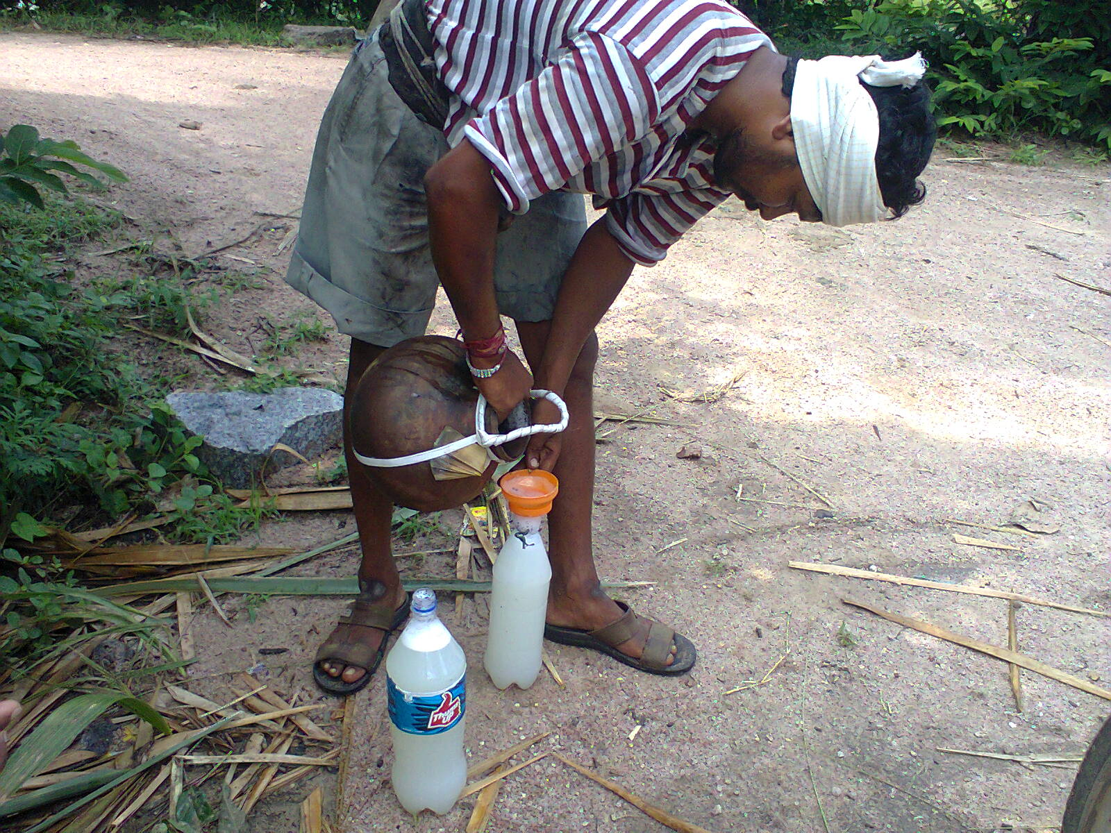 తాటి కల్లు